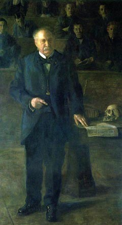 Portrait of Professor William Smith Forbes by Thomas Eakins